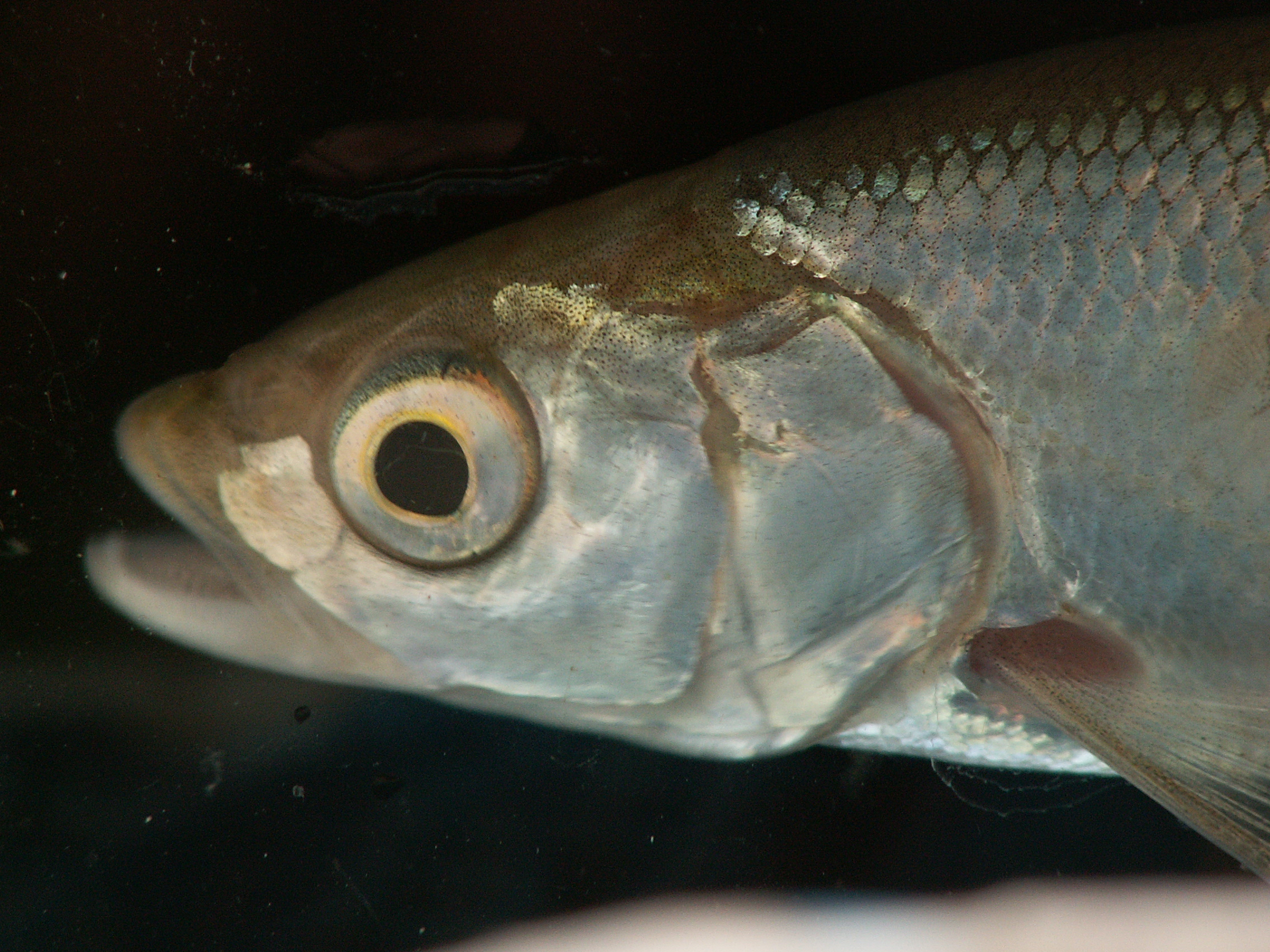 Head of Aspius aspius with open mouth